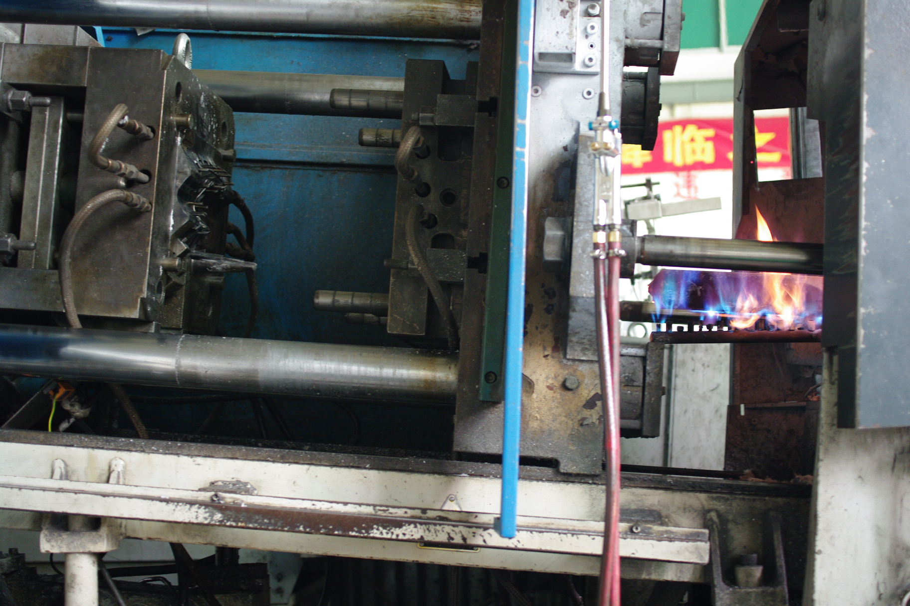 Die casting dies for magnesium mounted in the die casting machine.